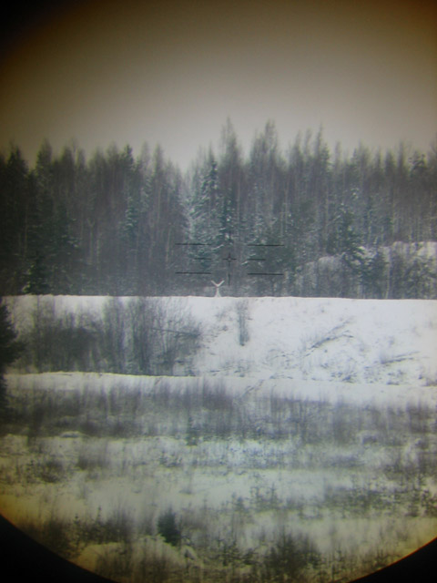 Description = Leopard 2a4 EMES 15 dayvision optics, 12x magnification with sight designed to engage enemy targets Author = I took the picture myself Date = 14.1.2006 Copyright = Teemu Korhonen (Proximax, view profile to confirm identity. Copy of the original document of Proximax's real name and time in the military can be found here. Social security number has been edited out for safety reasons.)